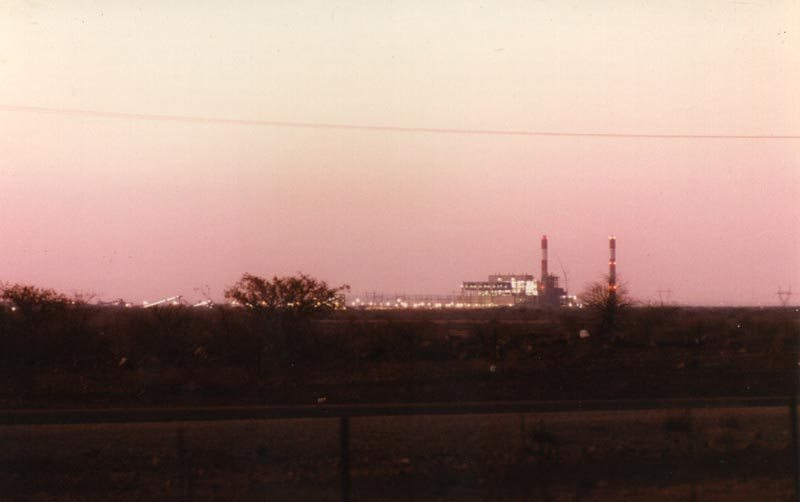 en.wiki "Taken and donated by User:John" Morupule Power Station, between Palapye and Serowe, Botswana.